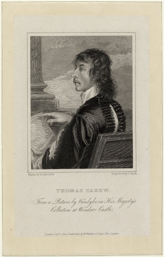 Thomas Carew (1595-1640)